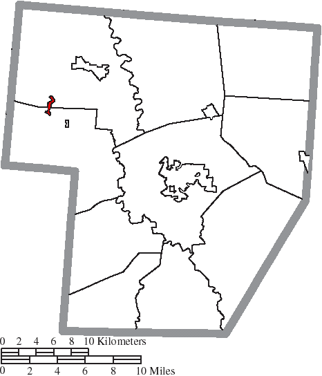 Map of the municipal and township boundaries of Fayette County, Ohio, United States, as of the 2000 census, with the location of the village of Octa highlighted. Township borders are shown only in unincorporated areas in order to differentiate incorporated and unincorporated areas more clearly.